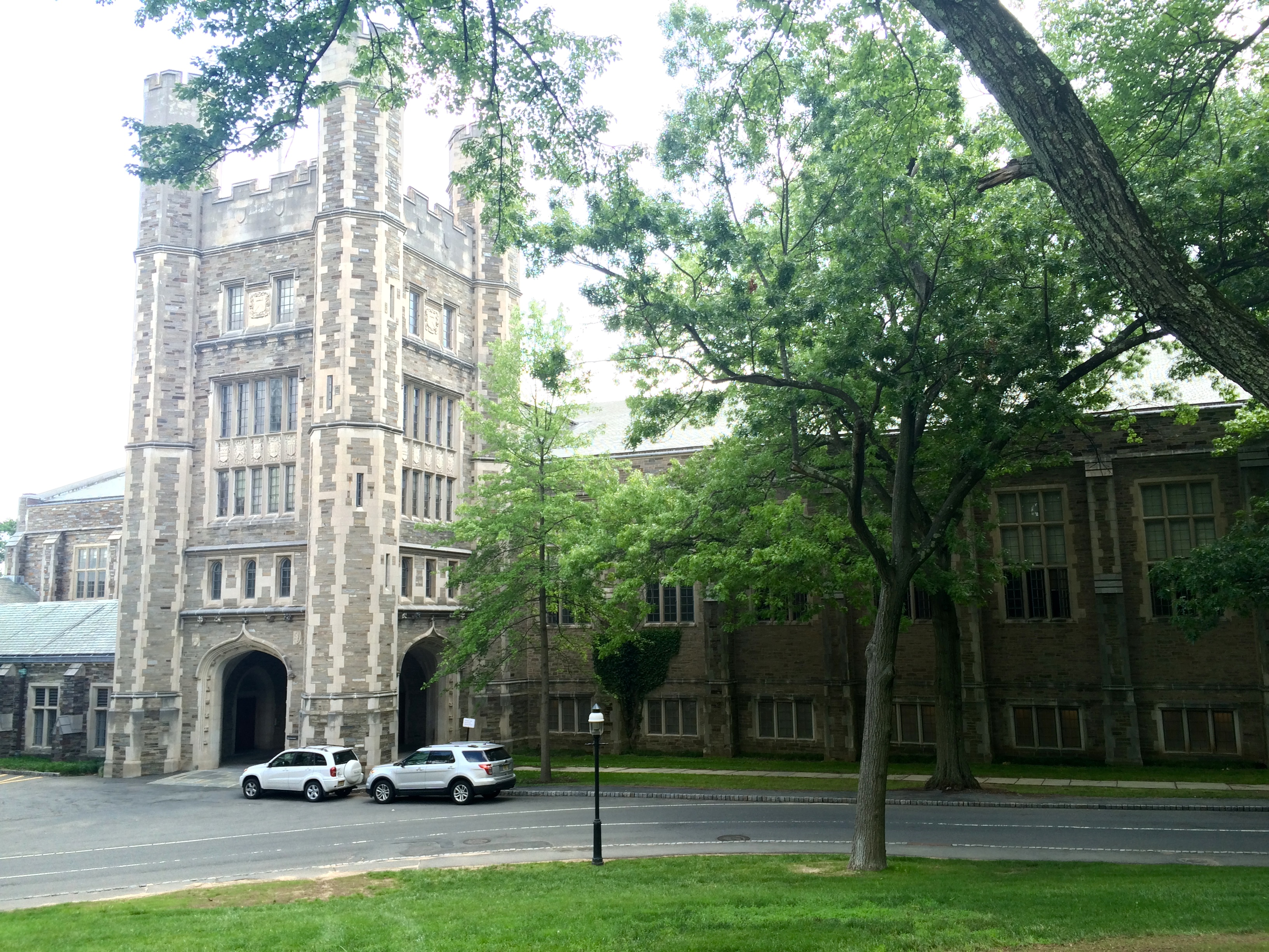 The tower of Dillon Gymnasium at Princeton University.